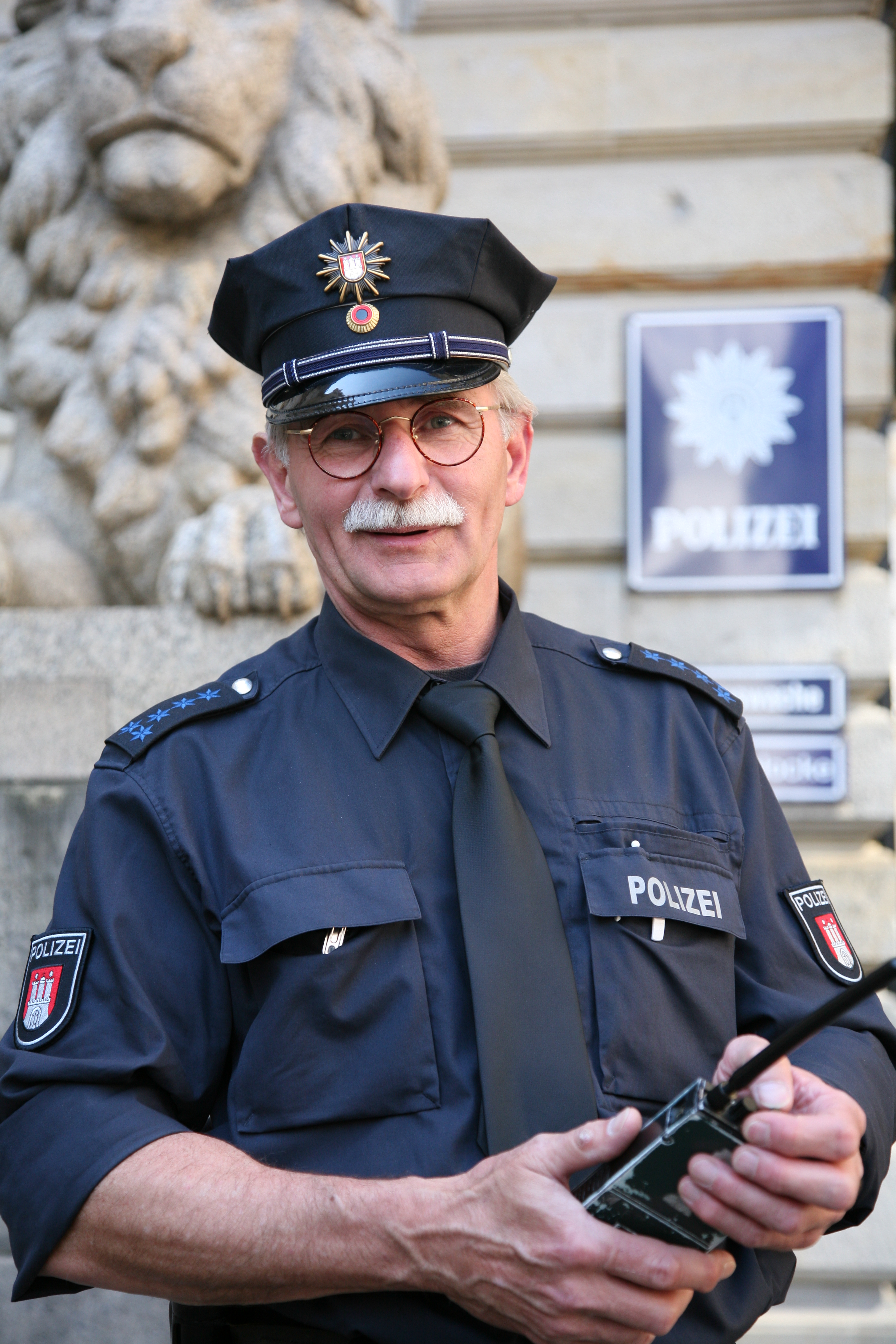 A senior police officer of the Hamburg police on assignment at Hamburg city hall, Germany.